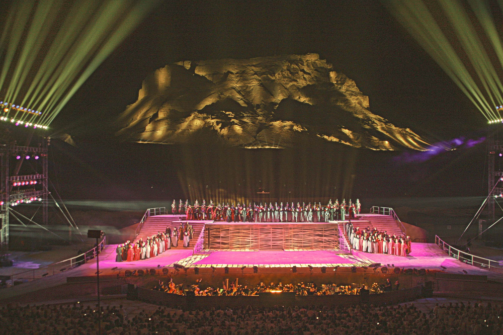 masada dead sea israel